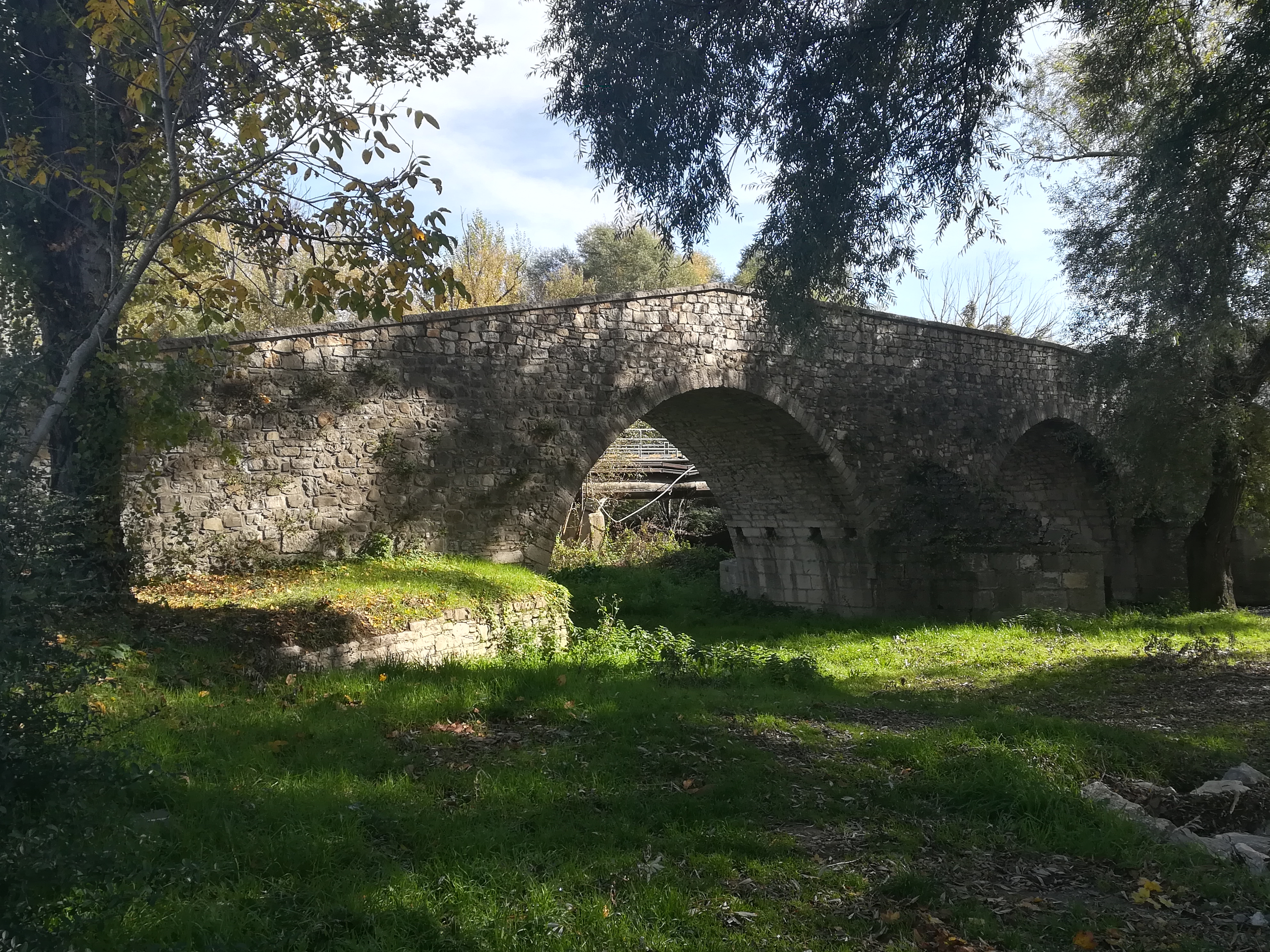 Roman bridge of Potenza, also known as 'San Vito's Bridge' - Potenza, Italy